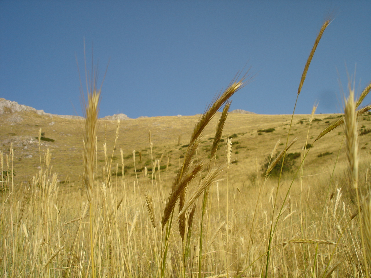 Rye on Bistra Mountain, Macedonia